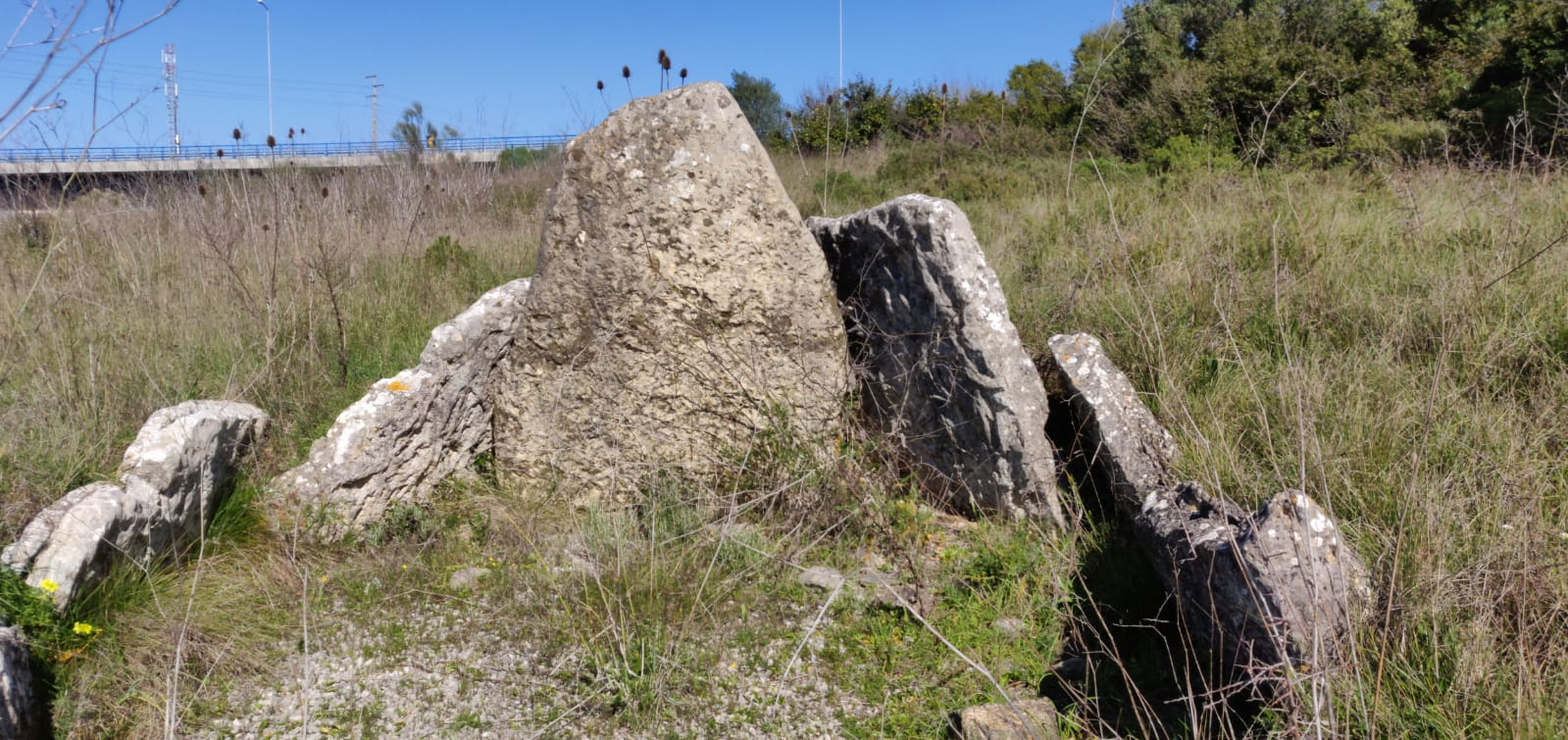 View of the remains of the Anta da Estria dolmen near Queluz, Lisbon District, Portugal.